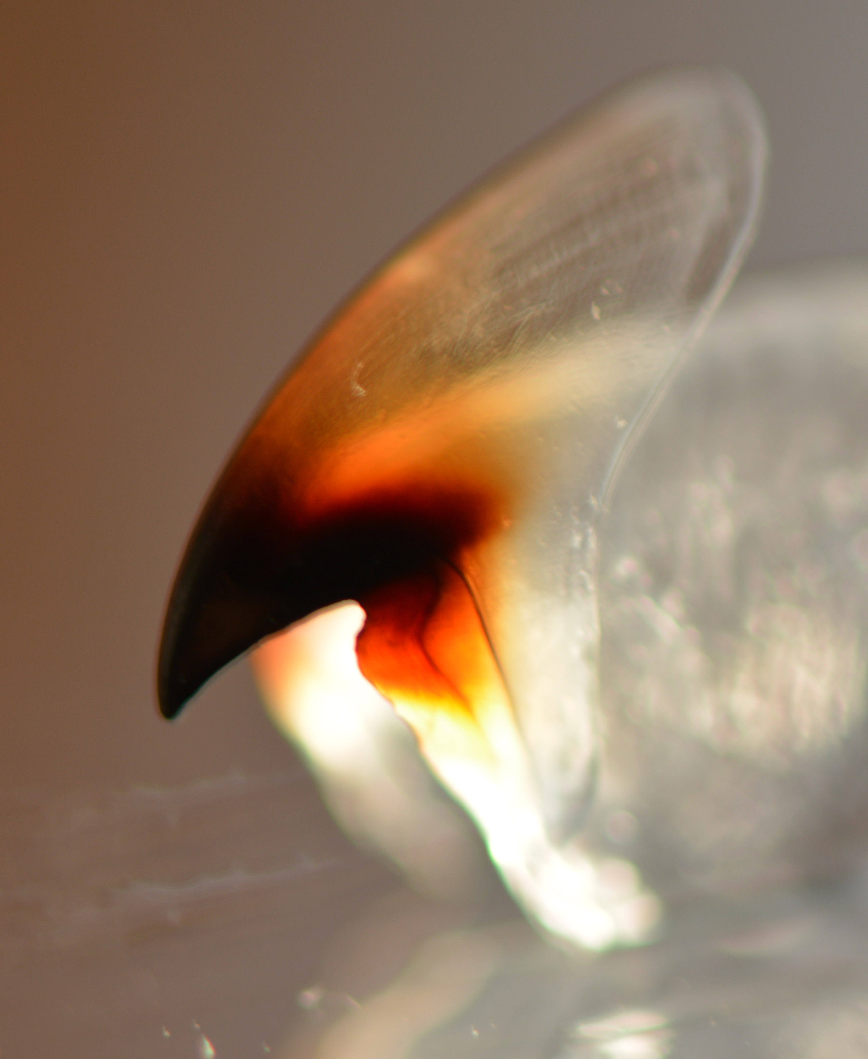 Common squid beak (Loligo vulgaris) translucent and flexible on one side and hard and dark brown at the end.